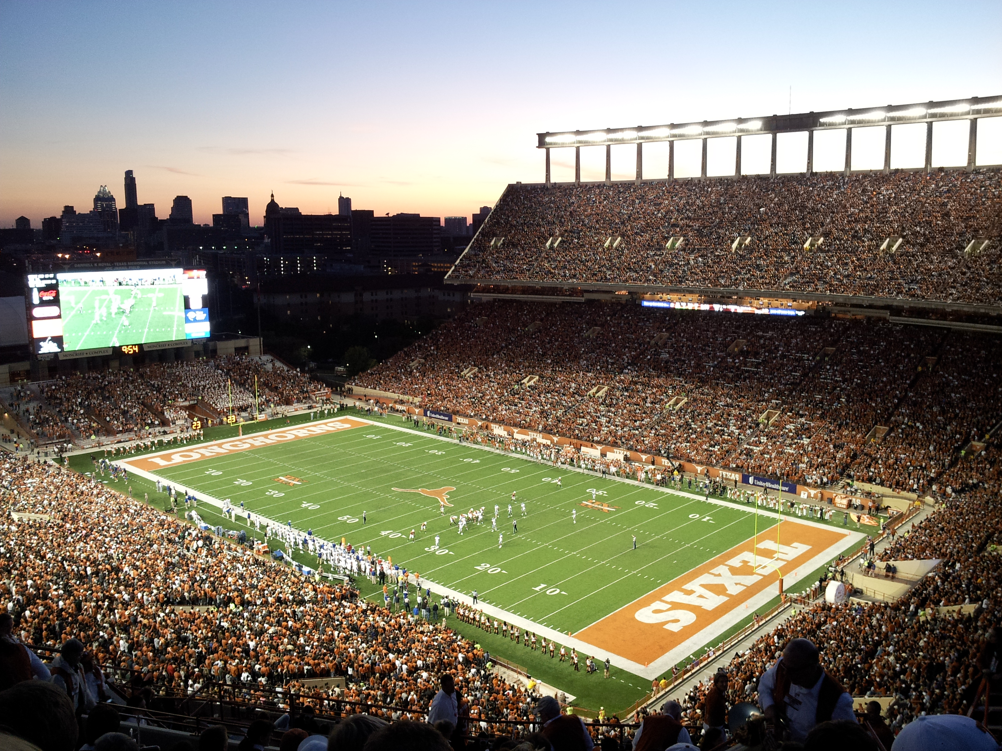 Image of DKR-TM Stadium taken on the night of October 29, 2011 when the Texas Longhorns played the Kansas Jayhawks.